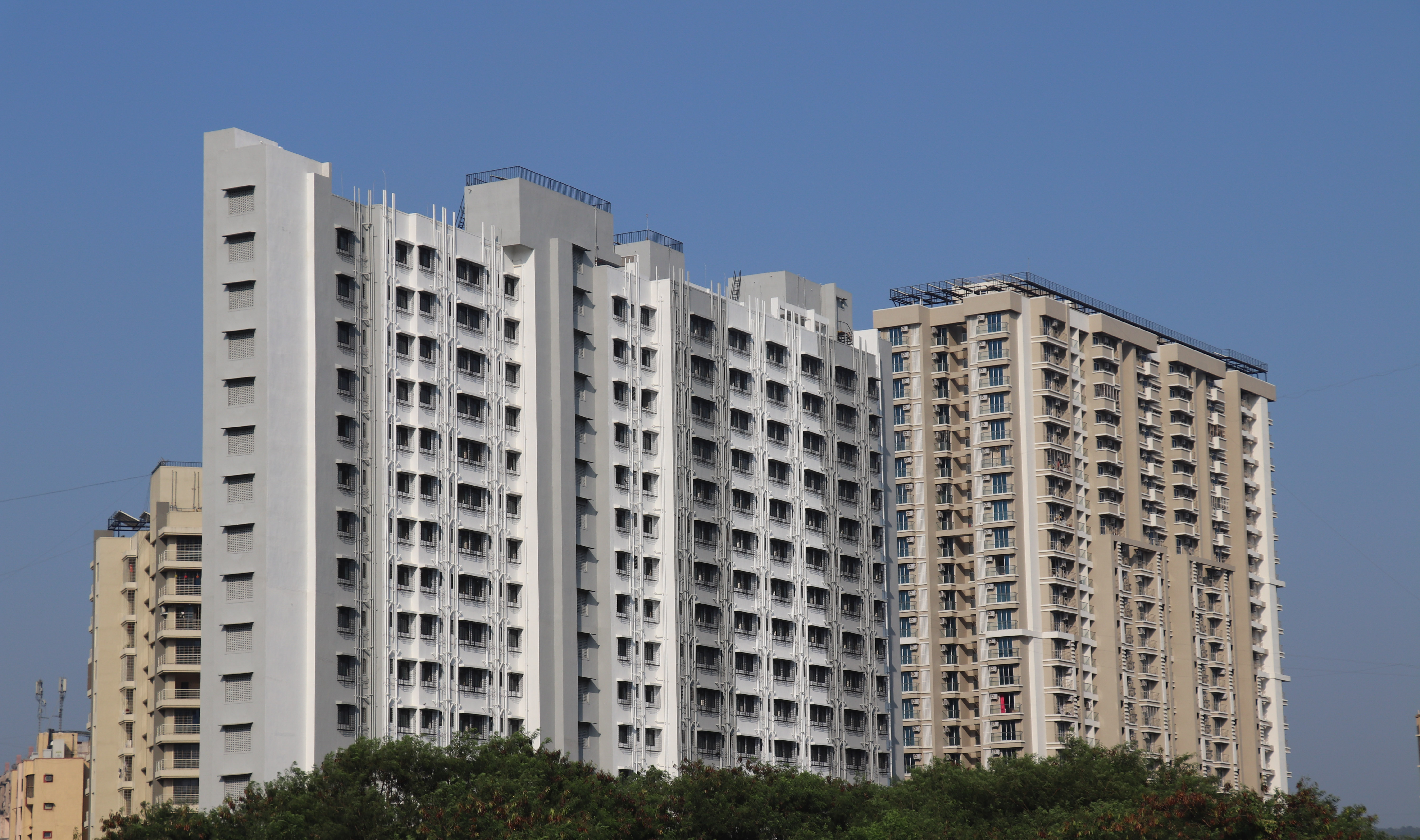 High-rise residential apartments in Mira Road (East), Thane district, Maharashtra state, India.